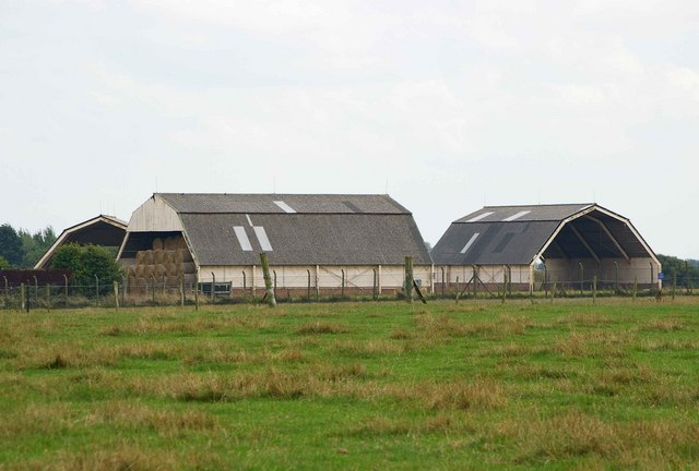 Wethersfield Hangars. These are examples of the US Air Force hangars on the former RAF Wethersfield. The airbase is now home to the M.O.D Police & Guarding Agency H.Q and Training Centre . Wethersfield had a long a difficult birth. It took 2 ½ years before it became operational. After a brief spell as a reserve landing field for RAF Ridgewell the 416th Bomb Group of the 9th USAAF took up residence in early 1944 flying A20 Havocs. During the Cold War the base operated among others F100 Super Sabres. It was the last of the 23 wartime airbases in Essex to remain operational. Today Air Cadet Sailplanes are 221199 and are the main aircraft traffic.